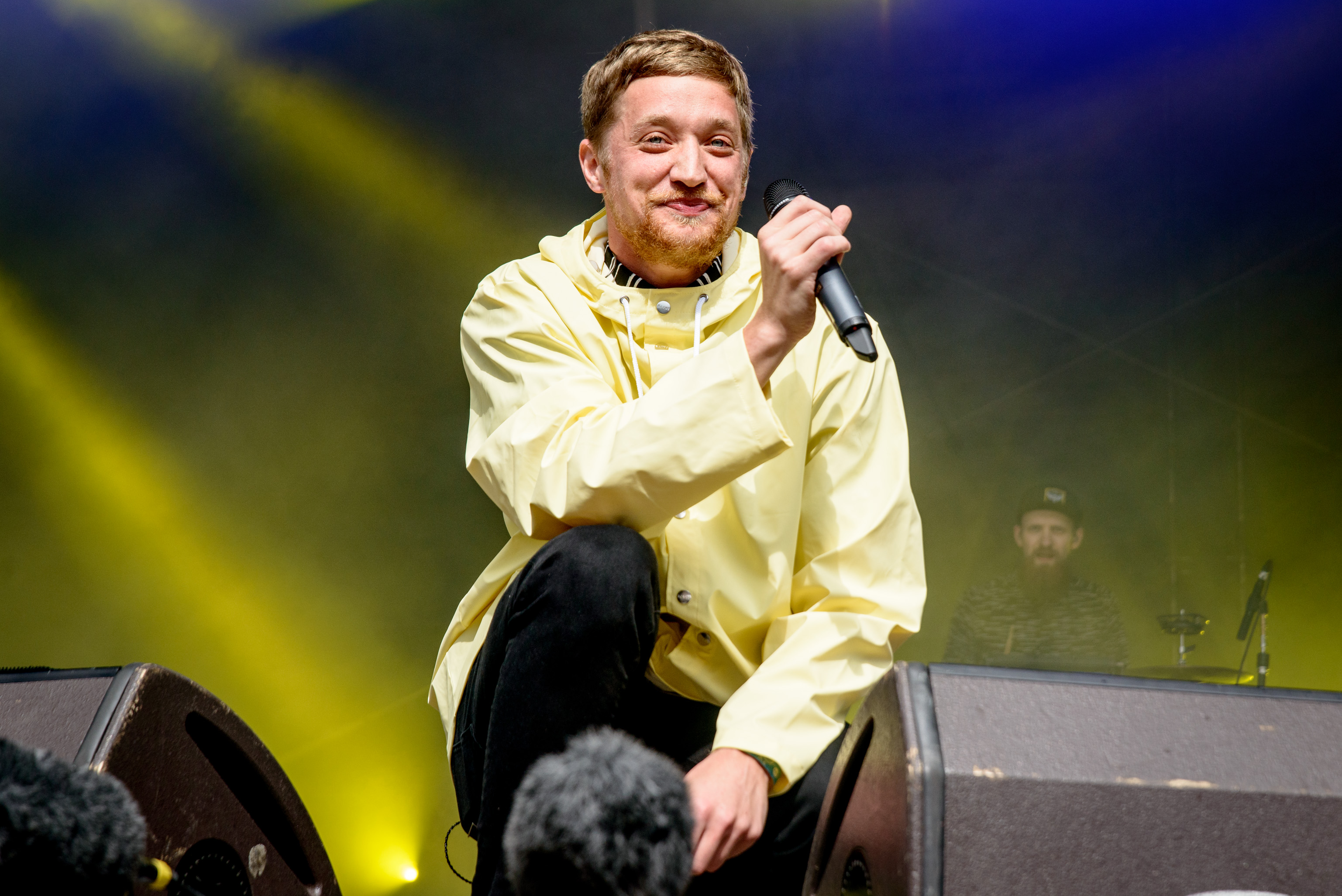 Maeckes Live @ Pulsopenair 2016